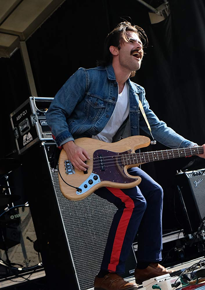 Drew Shalka performing live with FKB in 2019